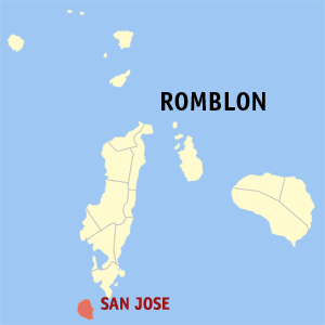 Map of Romblon showing the location of San Jose